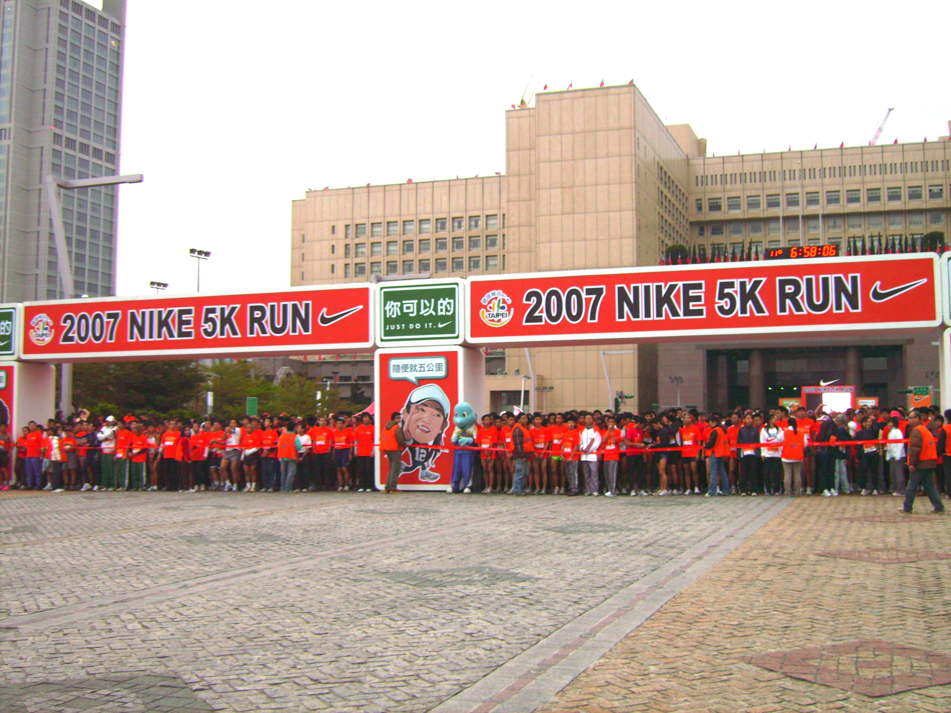 Nike 5K Run 2007: Crowded runners.